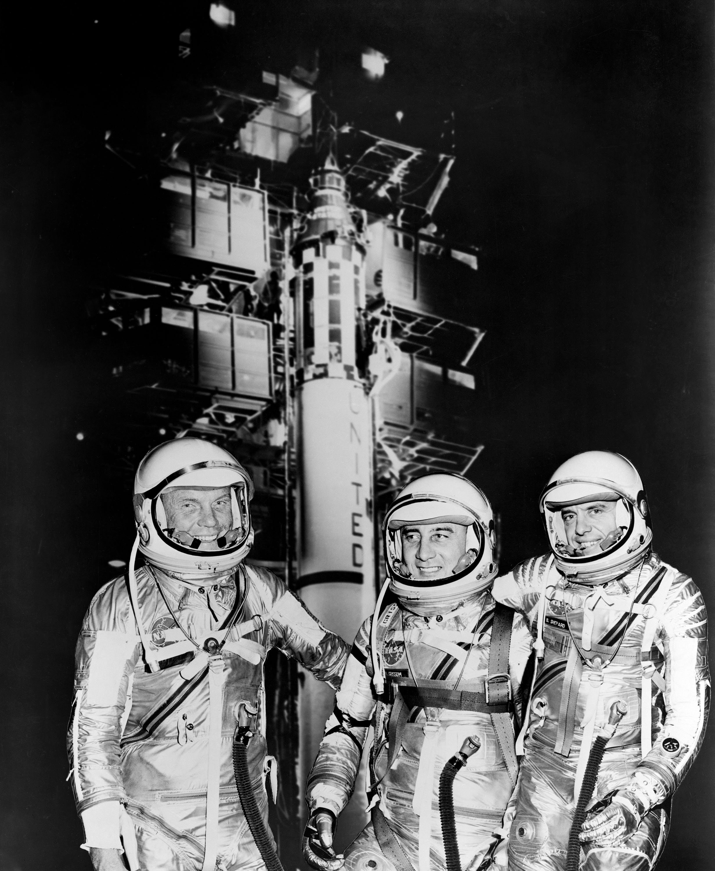 1961 -- The first three Americans in space, Mercury astronauts, from the left, John H. Glenn Jr., Virgil I. (Gus) Grissom and Alan B. Shepard Jr. standing by Redstone rocket in their spacesuits. Photo credit: NASA NASA image use policy.